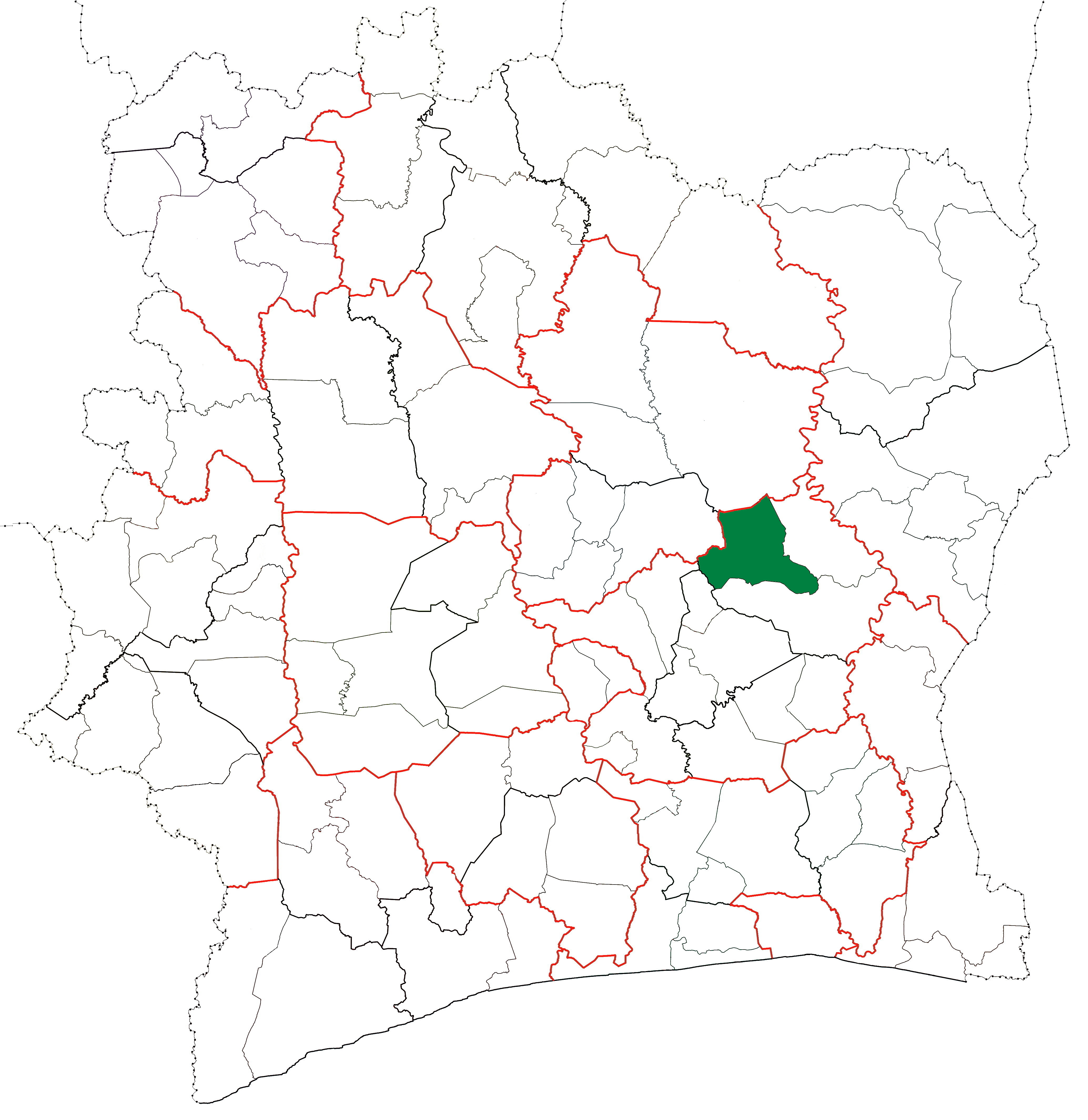 Locator map for M'Bahiakro Department in Côte d'Ivoire.